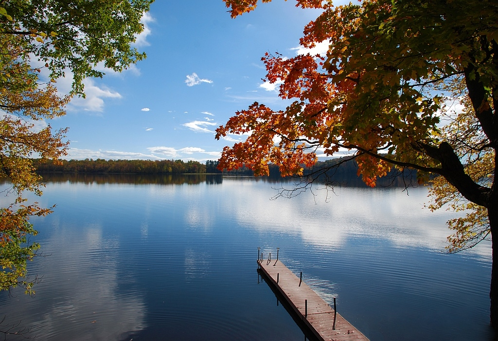 Fall colors on 3 Mile Lake, Muskoka Lakes, Ontario